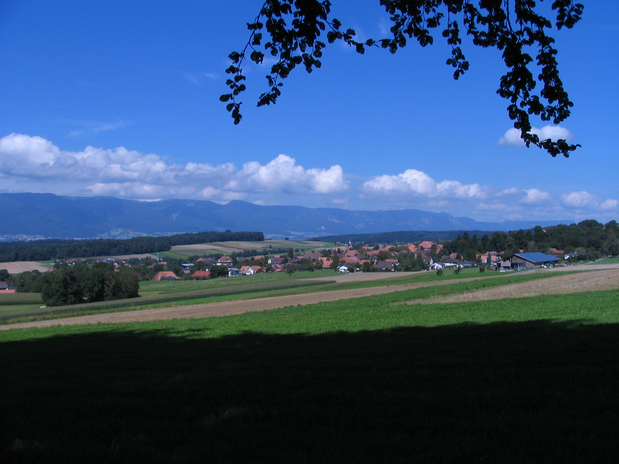 The village Schnottwil (Canton of Solothurn)